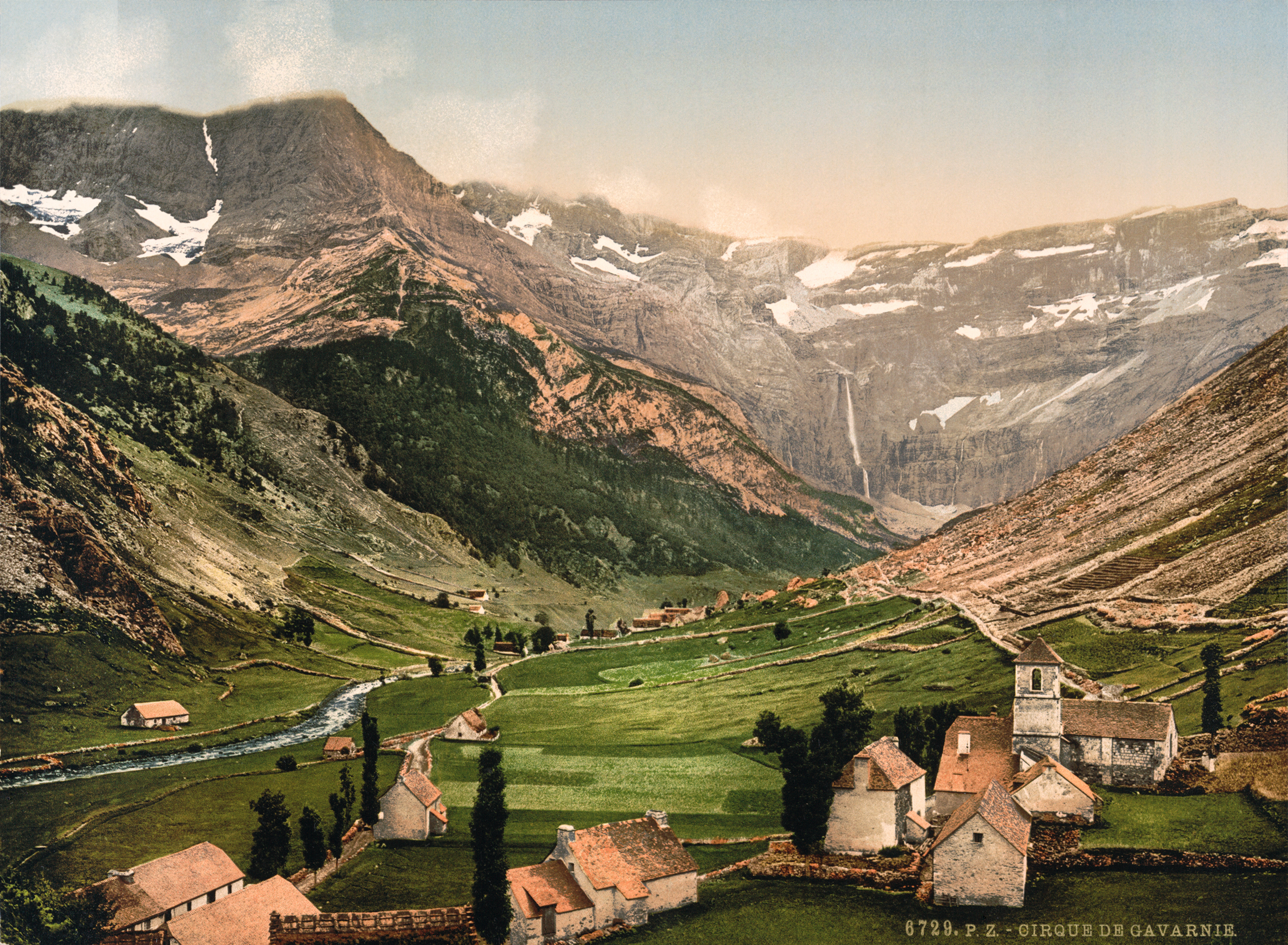 Cirque de Gavarnie (Pyrénées-Atlantiques, France). Print no. "6729" Restored version. Restoration performed by Garrondo.